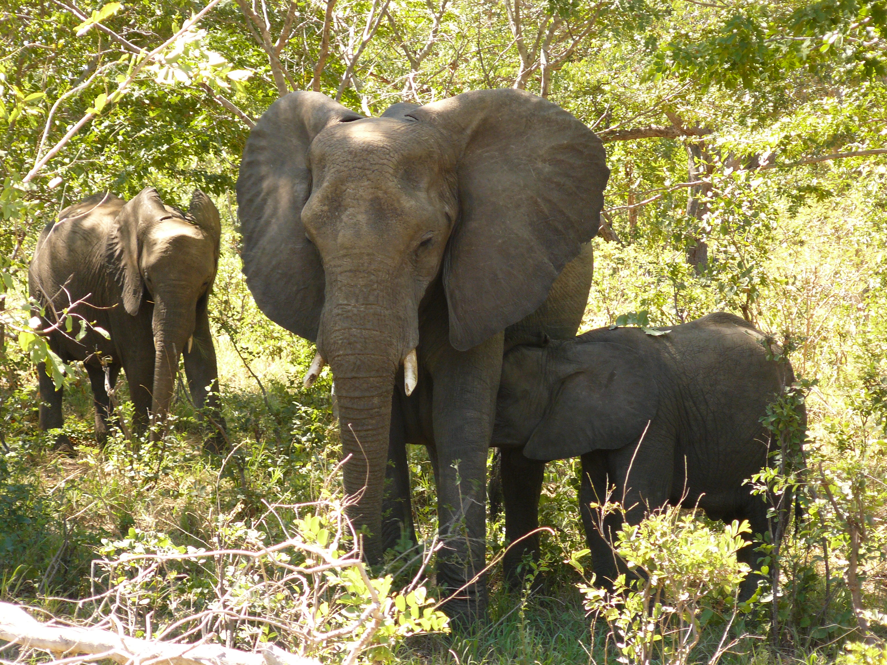 Elephants in Chobe National Park, Botswana